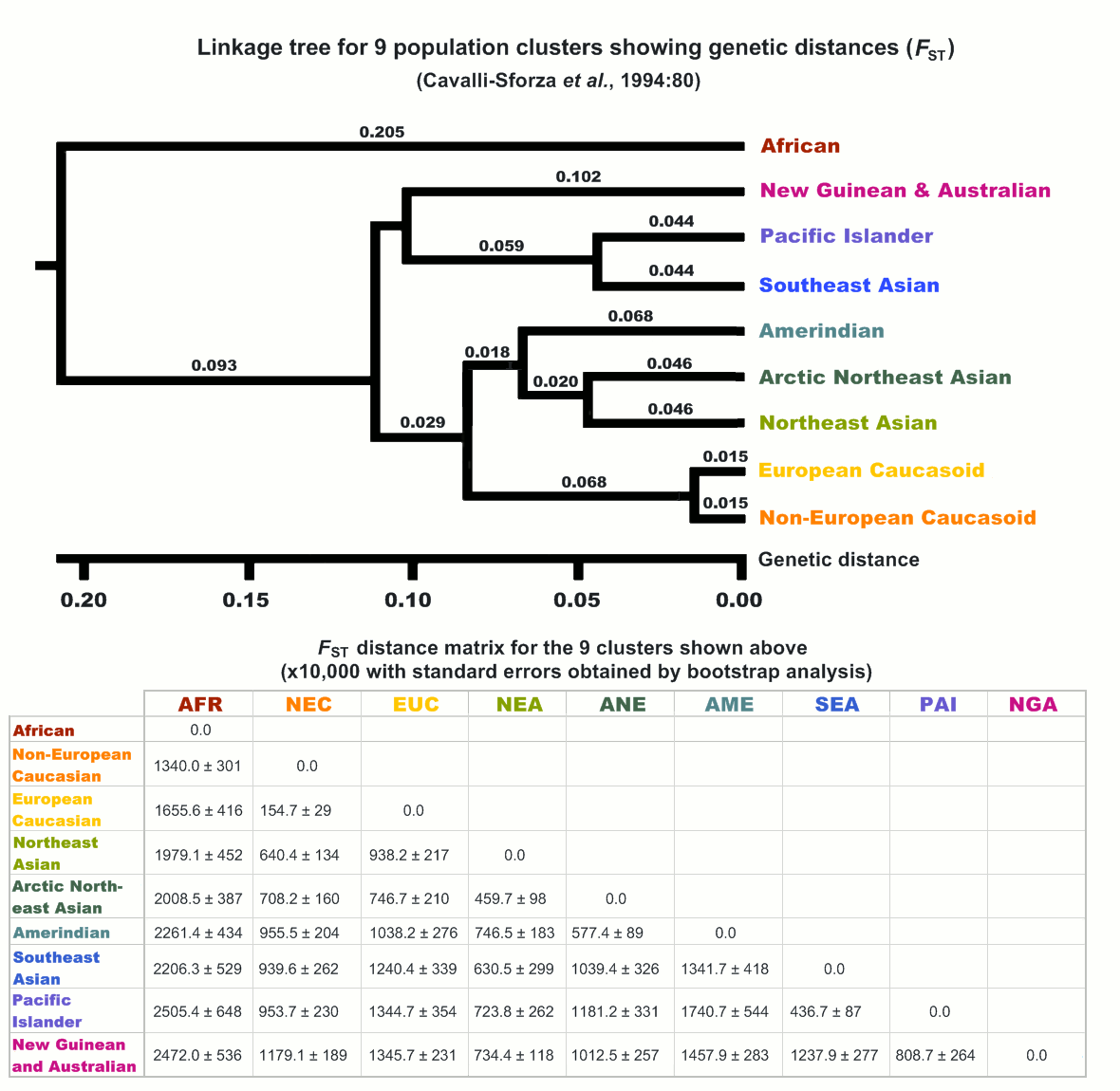 Linkage tree and Fst distance matrix for 9 population clusters created using data gathered from Cavalli-Sforza, L.L., Menozzi, P. & Piazza, A,. The History and Geography of Human Genes, 1994.